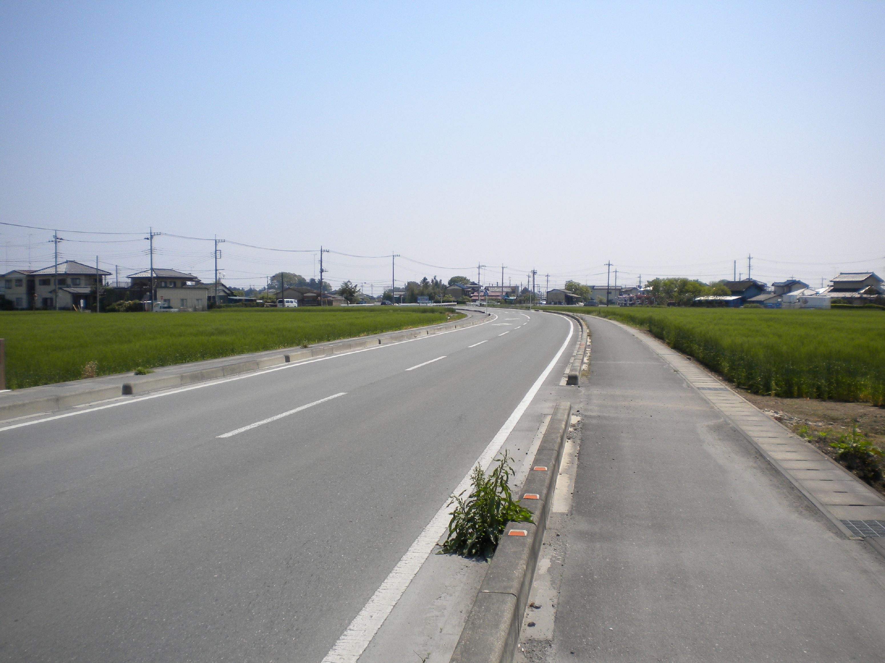 Tochigi prefectural road No.288 on Tsuga town